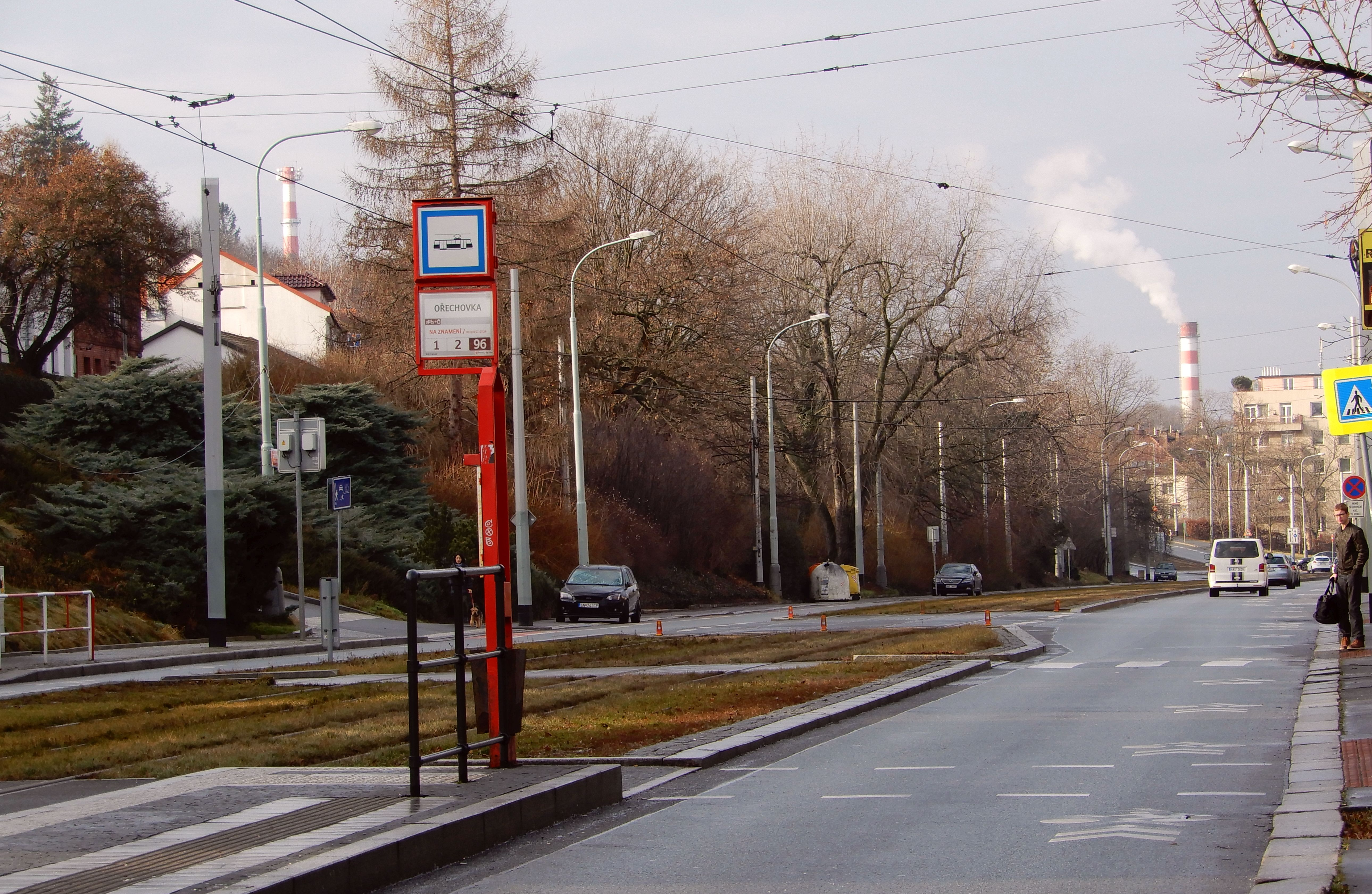 Střešovická street, tramstop Ořechovka, chimneys